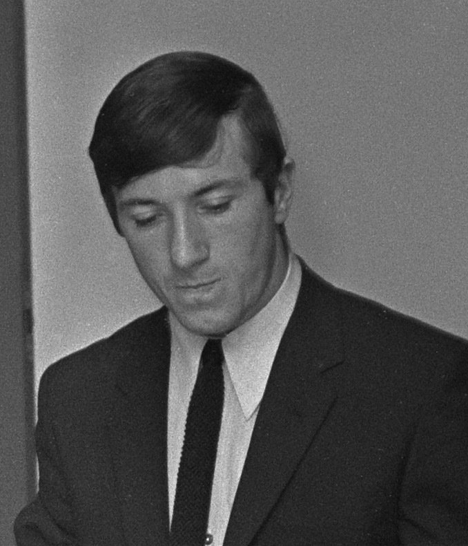 George Armstrong, 13 November 1967, arrival Arsenal at Schiphol, North Holland, Netherlands, Armstrong on Wikidata, see also photos at [1], [2], [3] for identification (not John Radford)